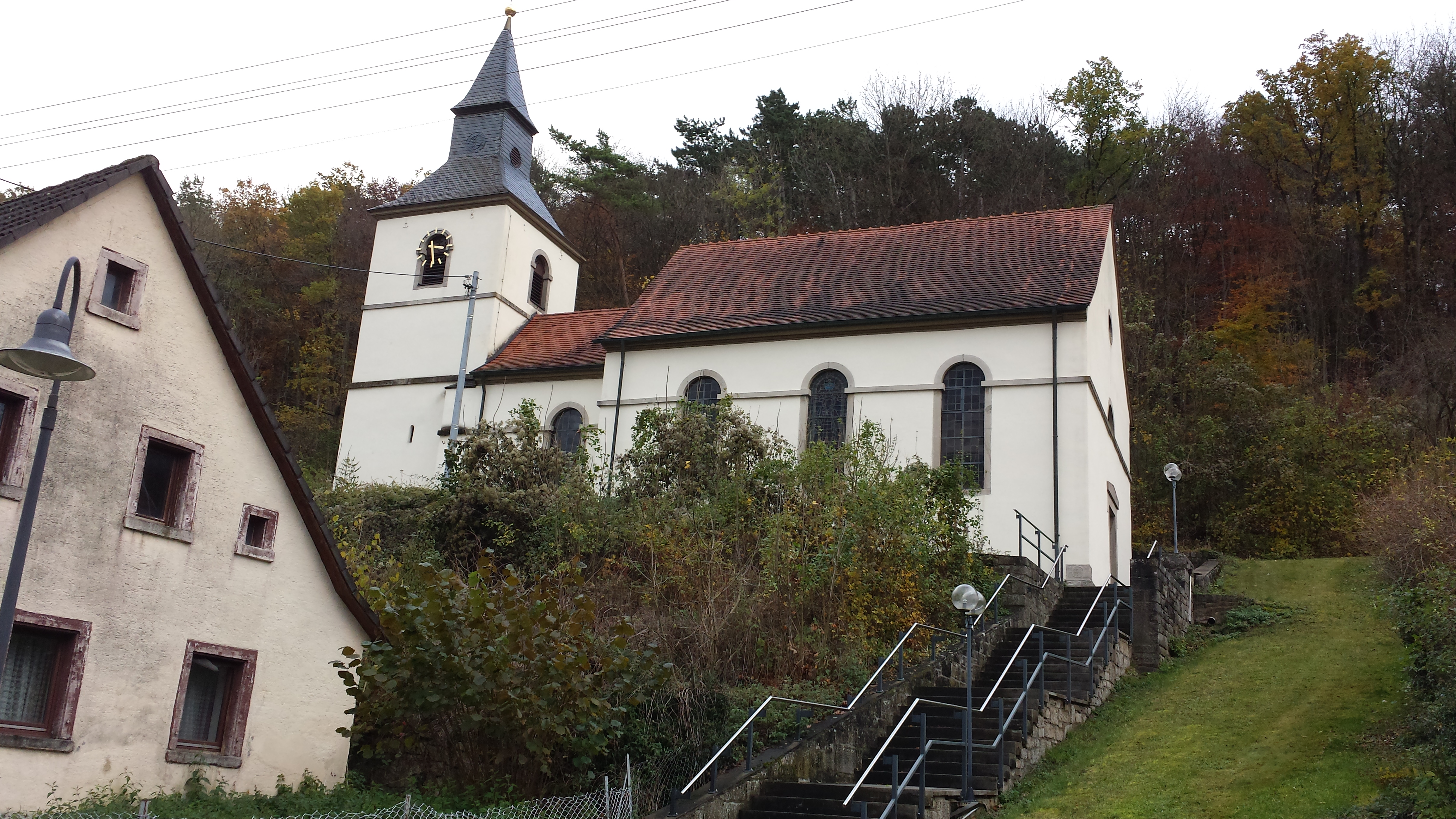 Die Laurentiuskirche in Paimar.